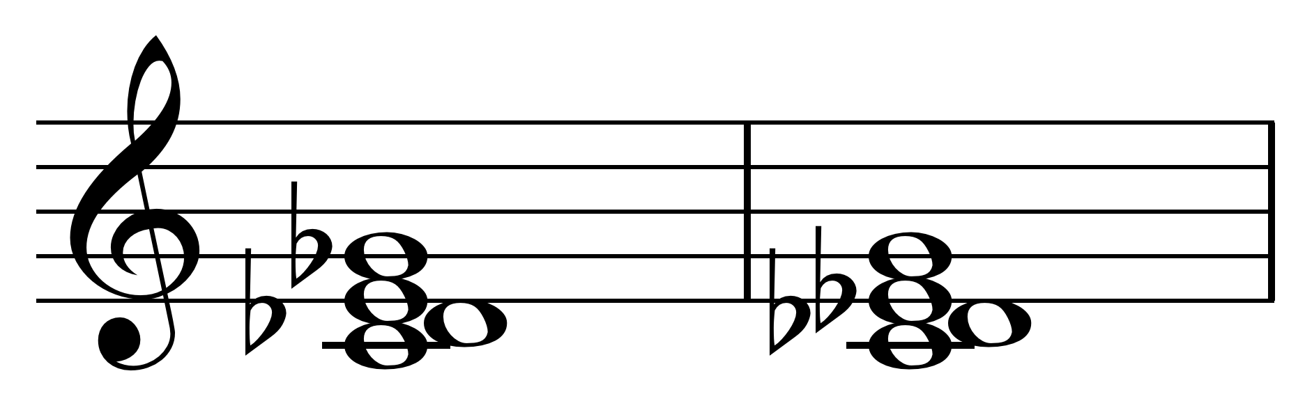 All-interval tetrachords: 4-Z15 ([0,1,4,6]) and 4-Z29 ([0,1,3,7]).